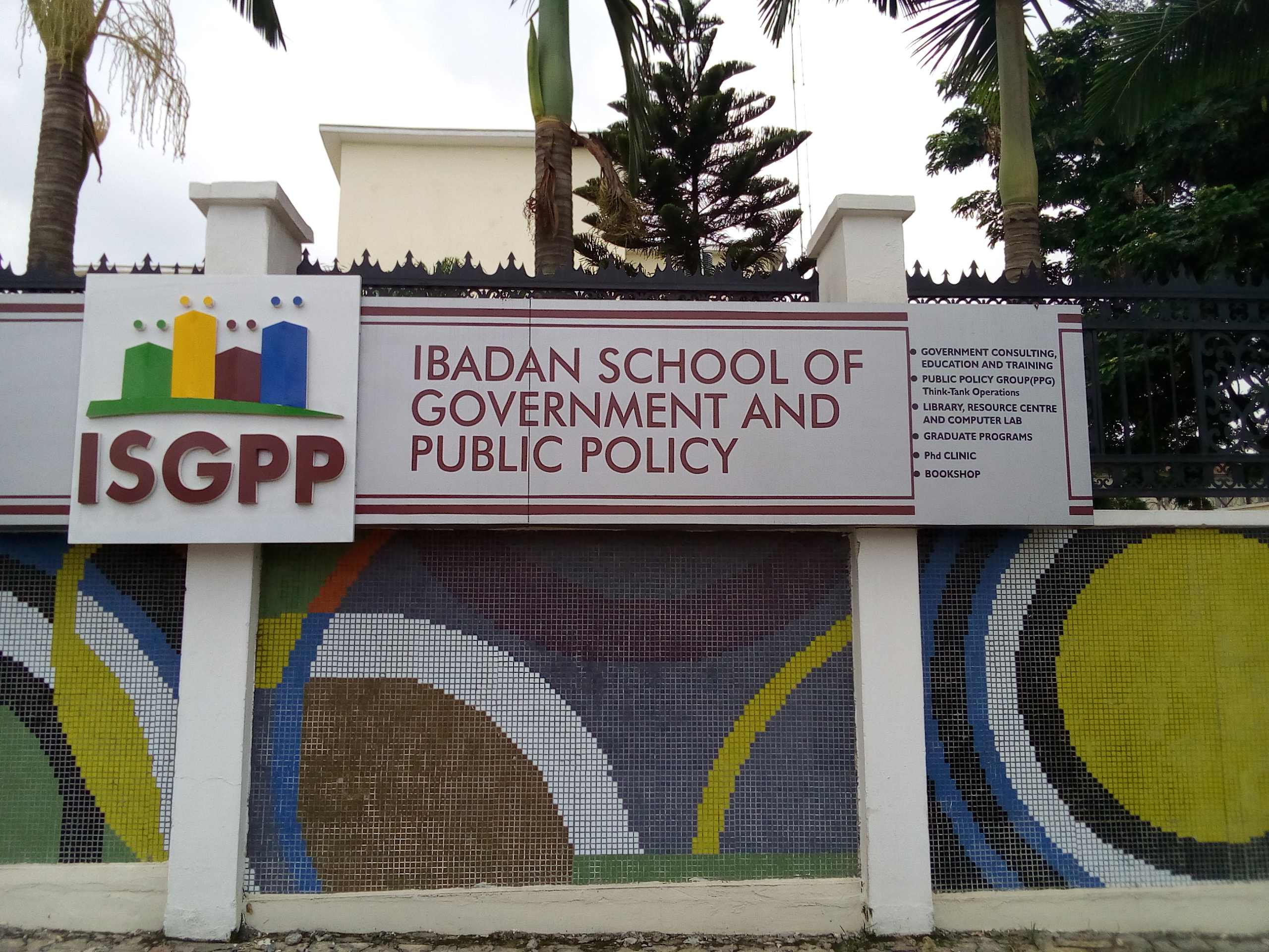 Front view of ISGPP, Awolowo, Ibadan